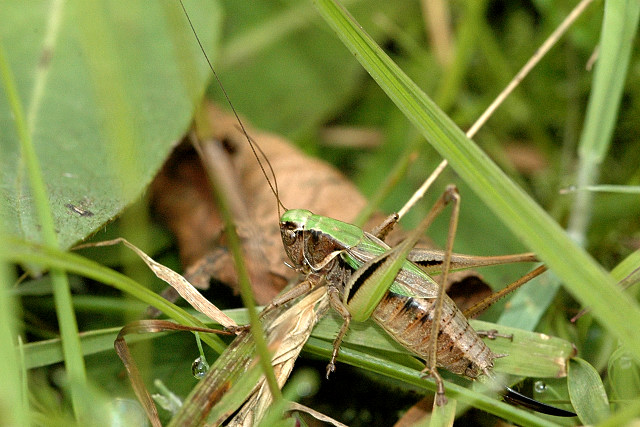 Picture taken in Commanster, Belgian High Ardennes . Species: Metrioptera brachyptera female